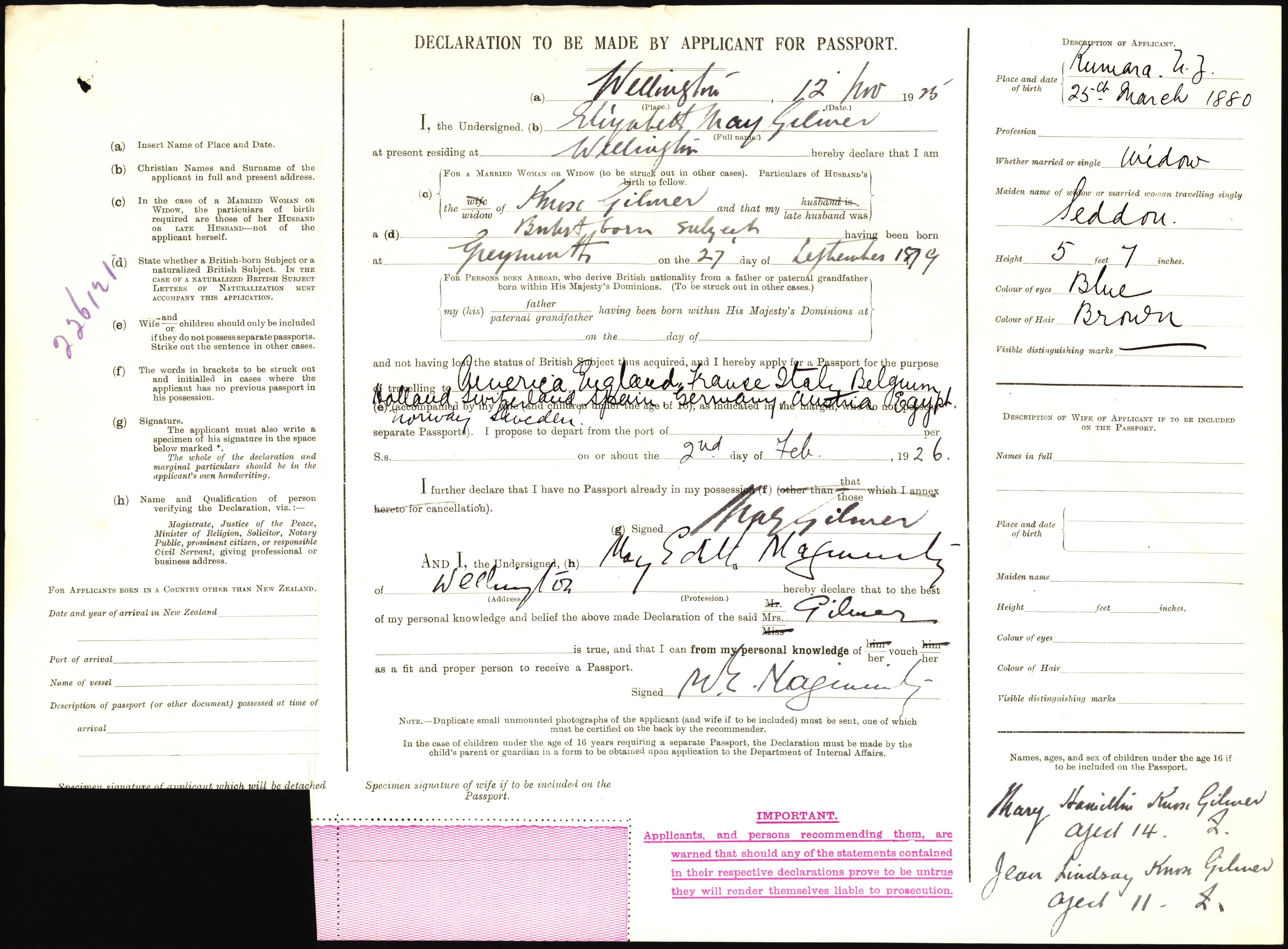 Archives New Zealand Reference: ACGO 8333 IA1 1350 / 15/11/23275